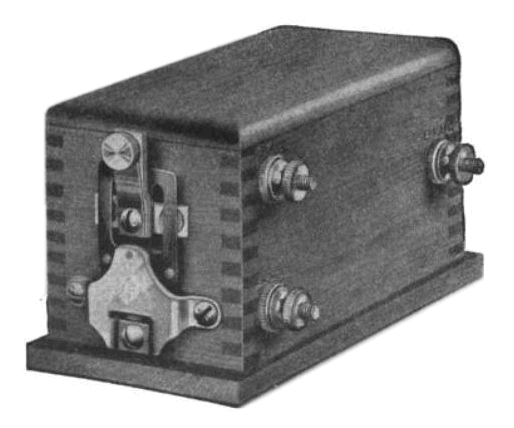 Drawing of vibrator-type ignition coil (trembler coil) used in early automobiles around 1900 such as the Model T Ford. It is an induction coil wired as an autotransformer. The two righthand terminals are attached to the car's battery, the lefthand terminal is the high voltage output to the distributor. The mechanism visible on the end is the vibrator interruptor, a magnetically activated switch contact which repeatedly breaks the DC current in the coil's primary winding to provide the flux changes needed to induce voltage in the secondary. When current starts to flow in the primary, the iron core of the coil which projects through the end of the box becomes a magnet. This pulls the springy interruptor arm, opening the switch contacts, turning off the current in the primary. With no current the magnetic field from the coil collapses, and the vibrator arm springs back, closing the contacts again, turning on the current. This cycle is repeated many times per second. Each time the contacts "break", the collapsing magnetic flux in the coil induces a high voltage pulse in the secondary winding. Typical secondary potential is 10,000 to 20,000 volts. Caption of figure: "Pfanstiehl box type vibrating coil". Alteration to image: cropped out distracting background.